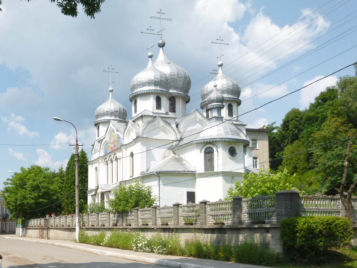 Turka, Orthodox church of the Intercession of the Theotokos, AlongCarpathian Expedition 27.07-27.08.2013